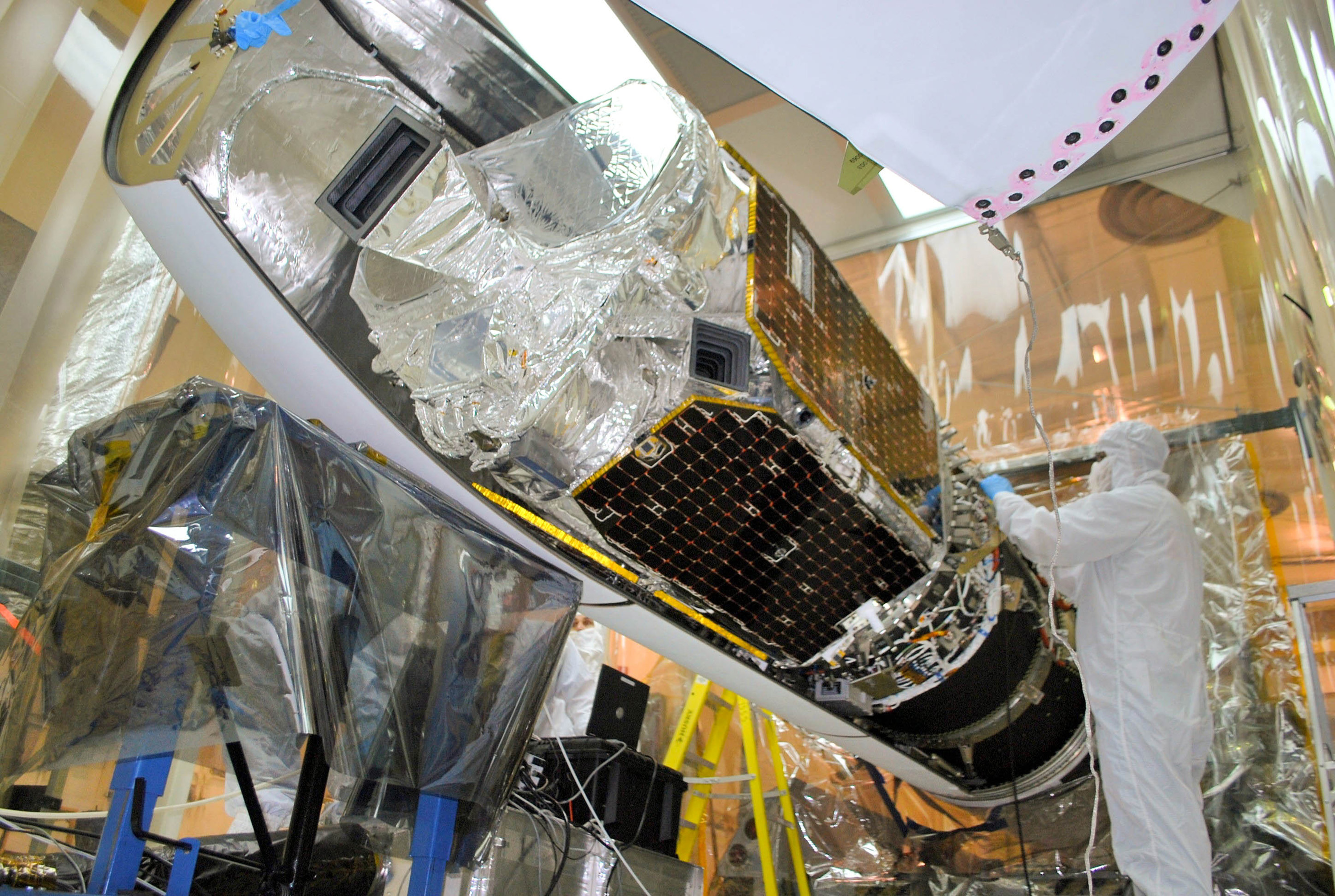 Technicians at Vandenberg Air Force Base in California remove the fairing from the Orbital Sciences Pegasus XL rocket, revealing NASA's NuSTAR spacecraft inside.